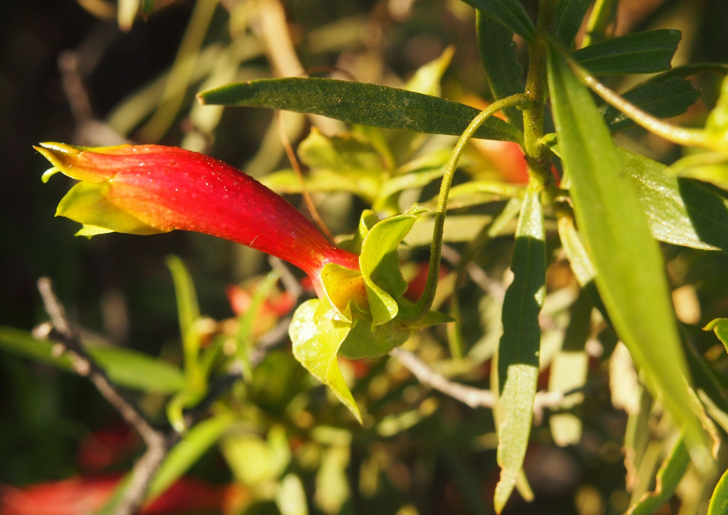 Eremophila duttonii flower